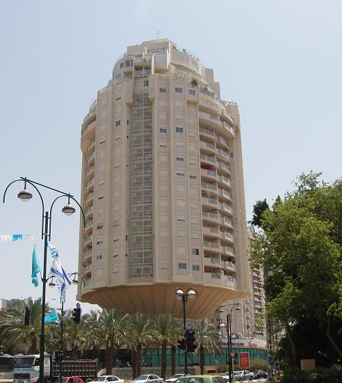 Residential apartment building, located in Herzliya, Israel